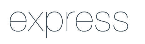 express.js logo